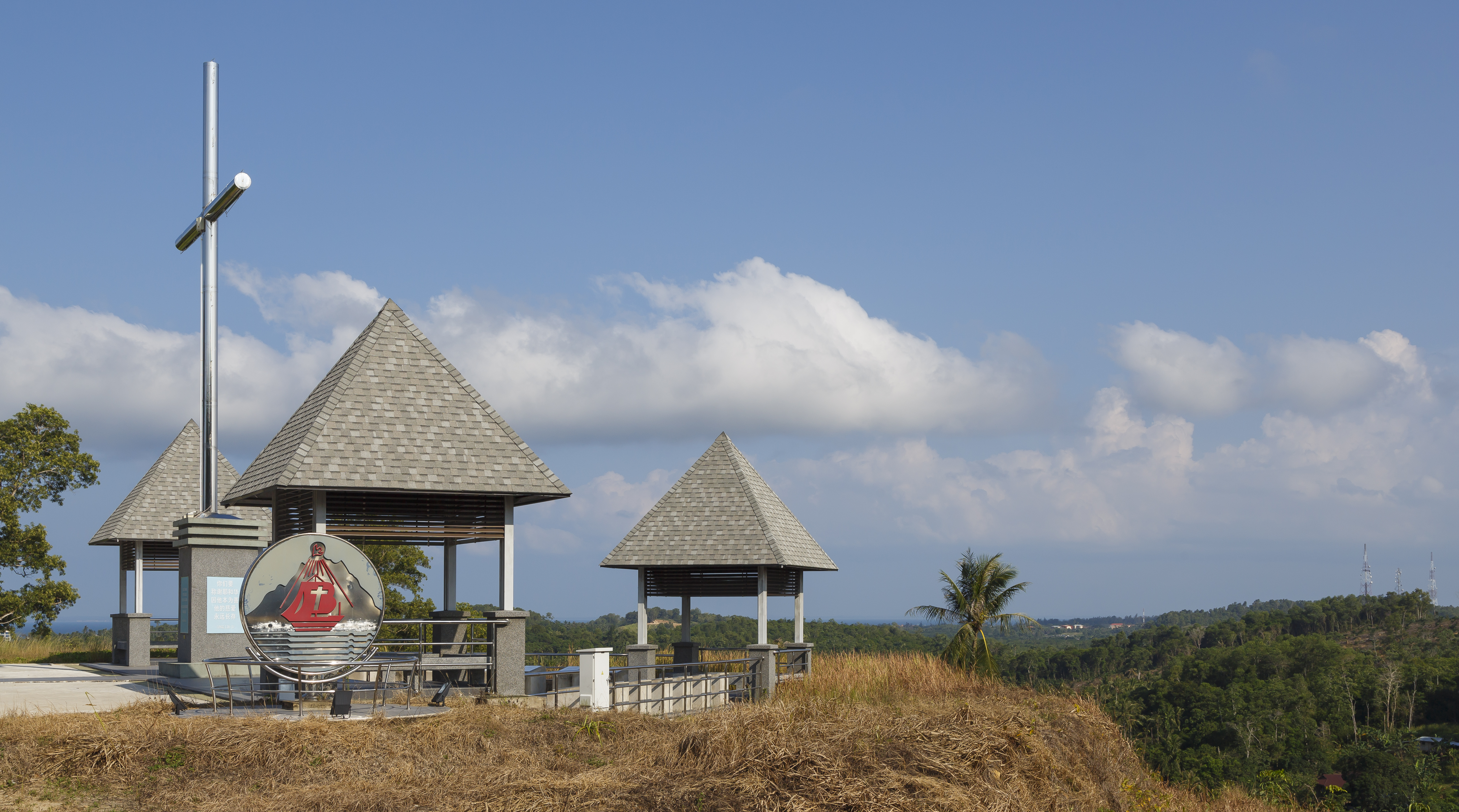 Kudat, Sabah, Malaysia: The cross on the hill of Basel Church of Malaysia Lau San (BCCM Lau San)